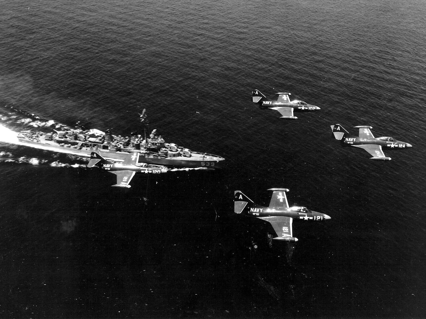 Four U.S. Naval Reserve Grumman F9F-2B Panthers from Fighter Squadron VF-721 "Iron Angels" in flight over the USS Tingey (DD-539). VF-721 was assigned to Carrier Air Group 101 (CVG-101) aboard the aircraft carrier USS Boxer (CV-21) for a deployment to Korea from 2 March to 24 October 1951.